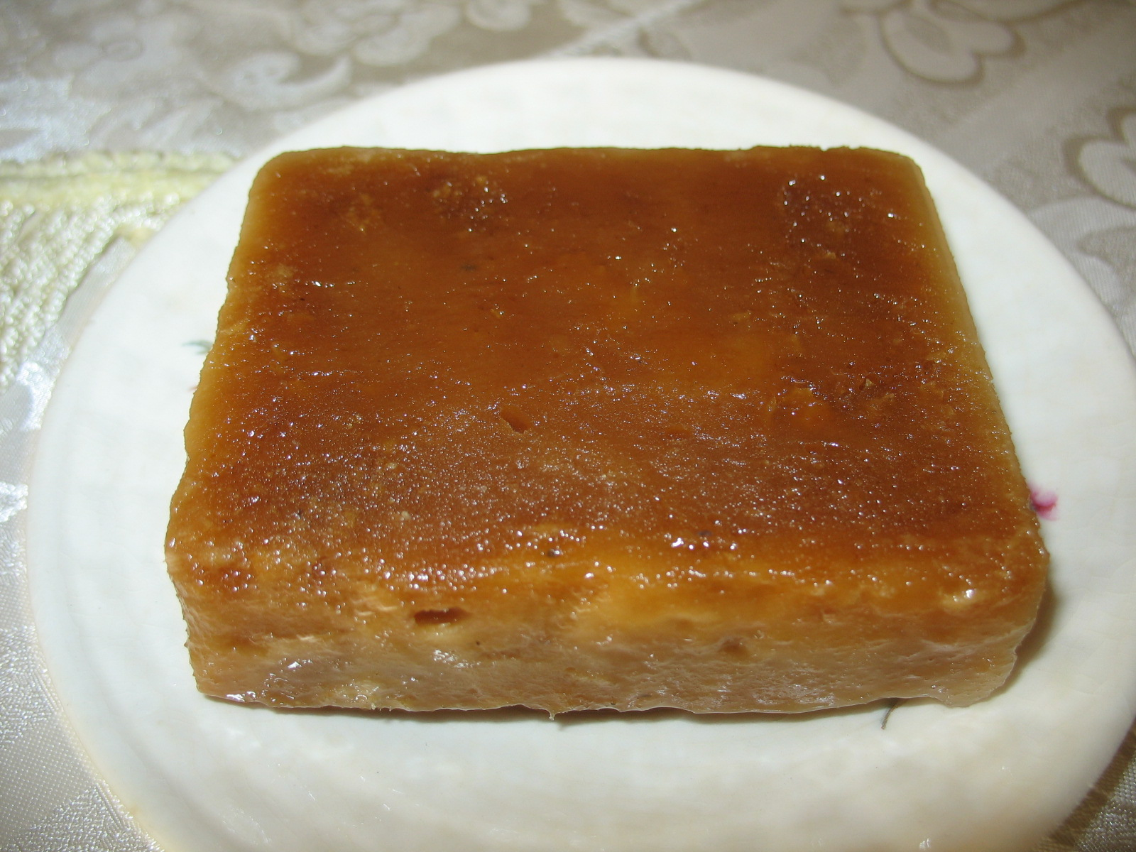 Panela